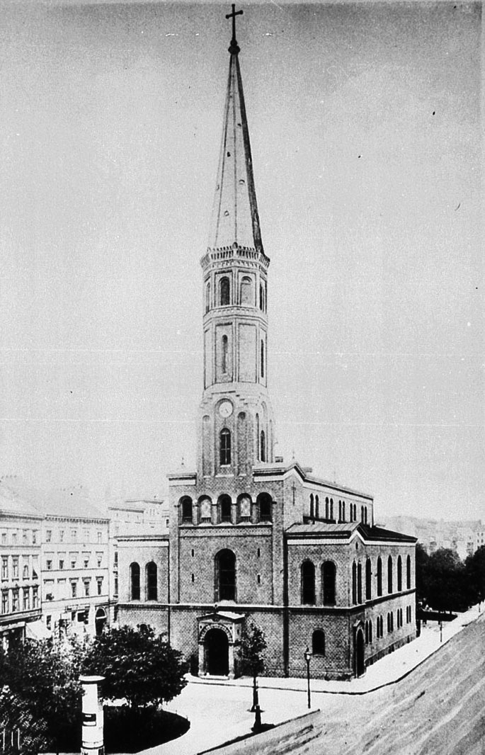 Andreaskirche, before 1900